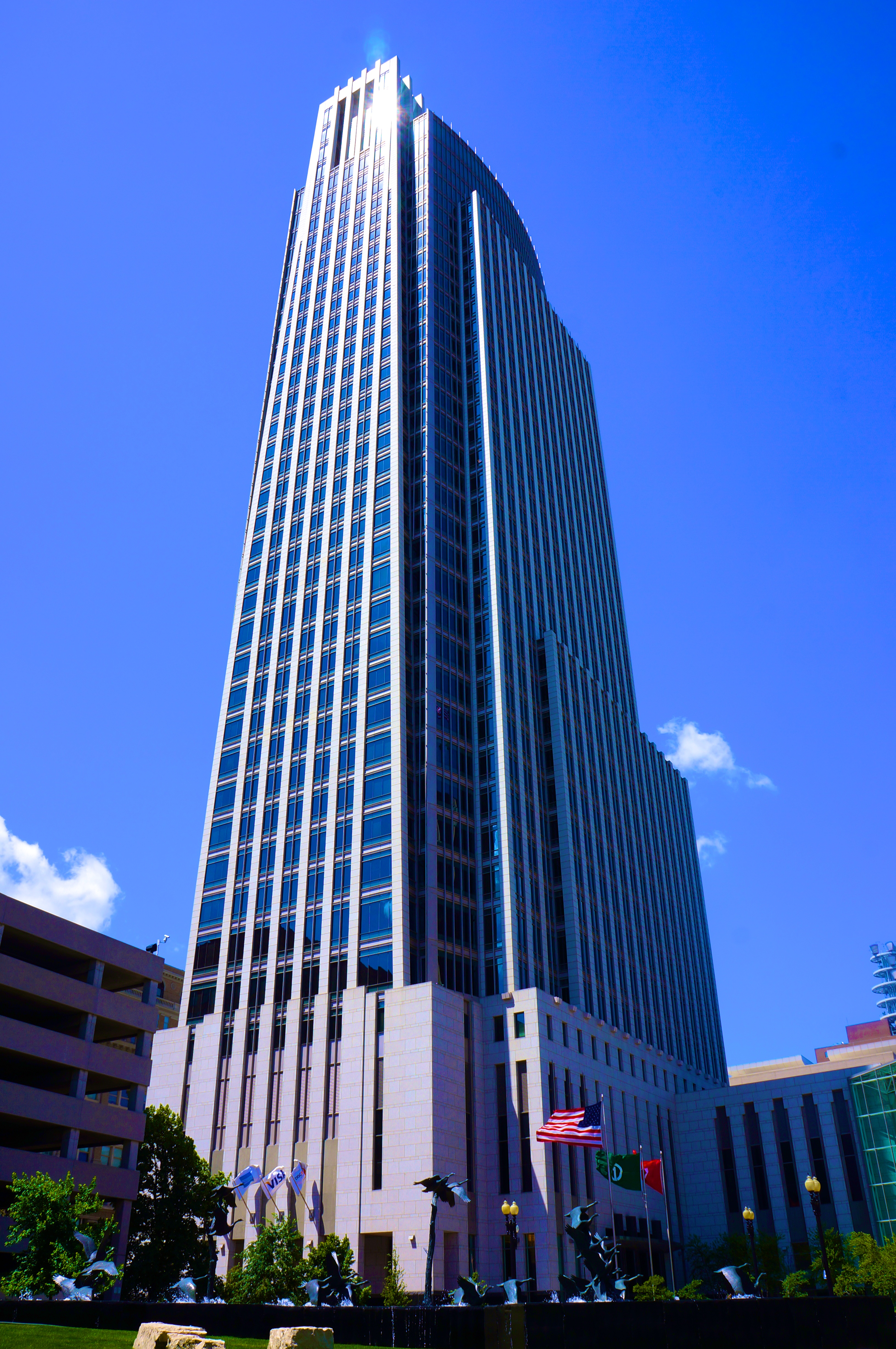 From the bottom of First National Tower in Omaha